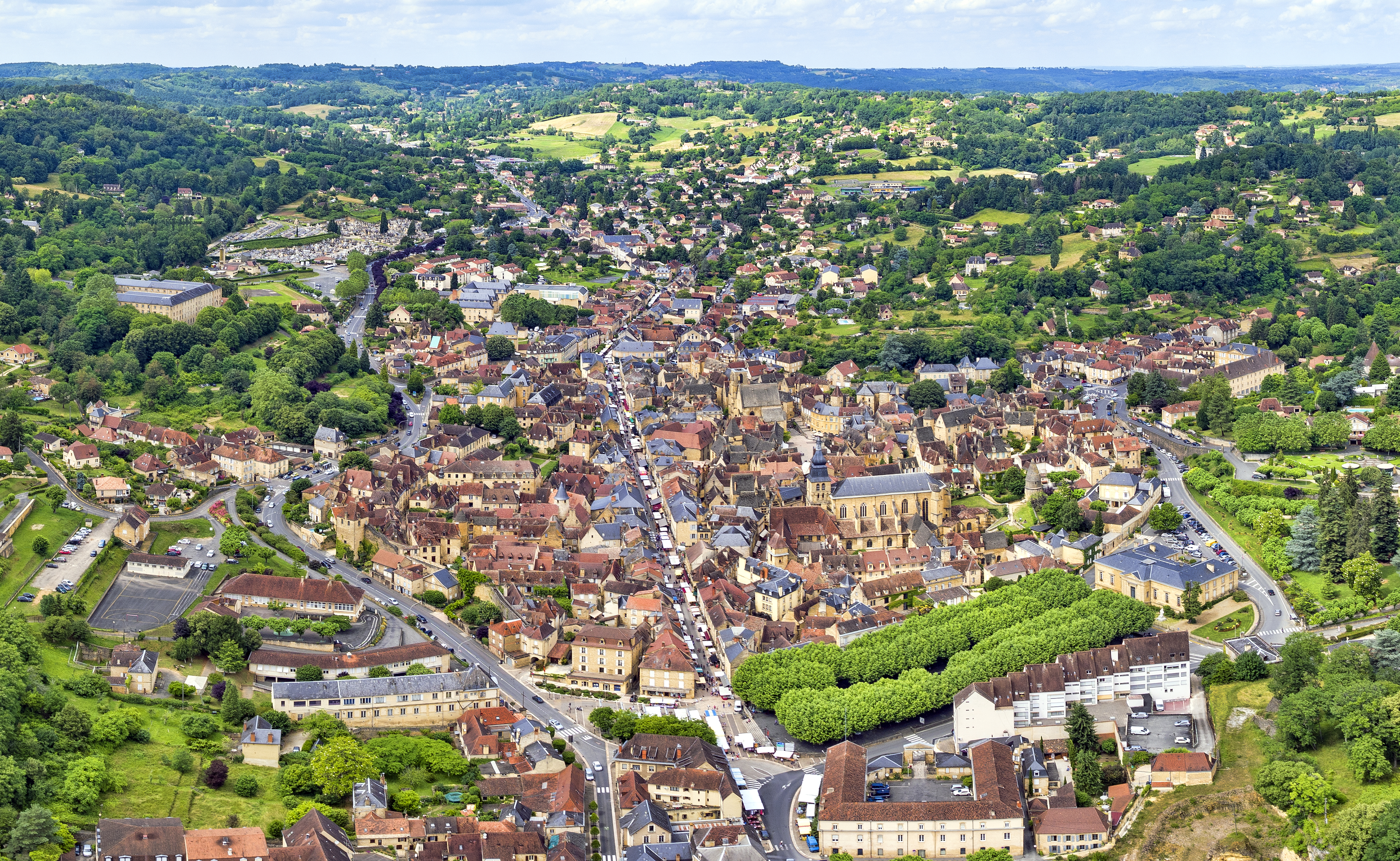 aerial shot of Sarlat la Caneda dordogne france 2016